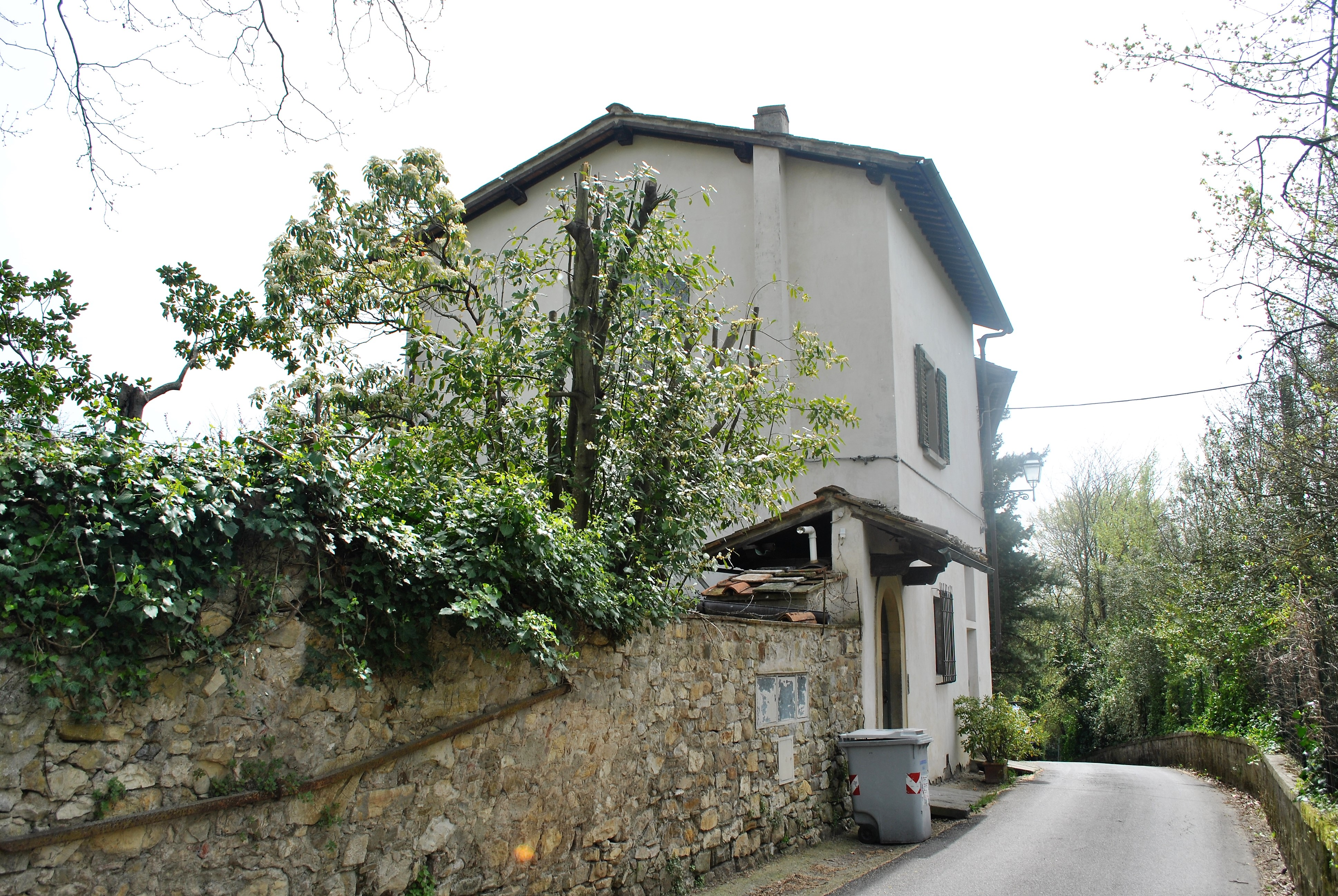 Image originally published in Queer Places: Retracing the Steps of LGBTQ people around the World Authored by Elisa Rolle